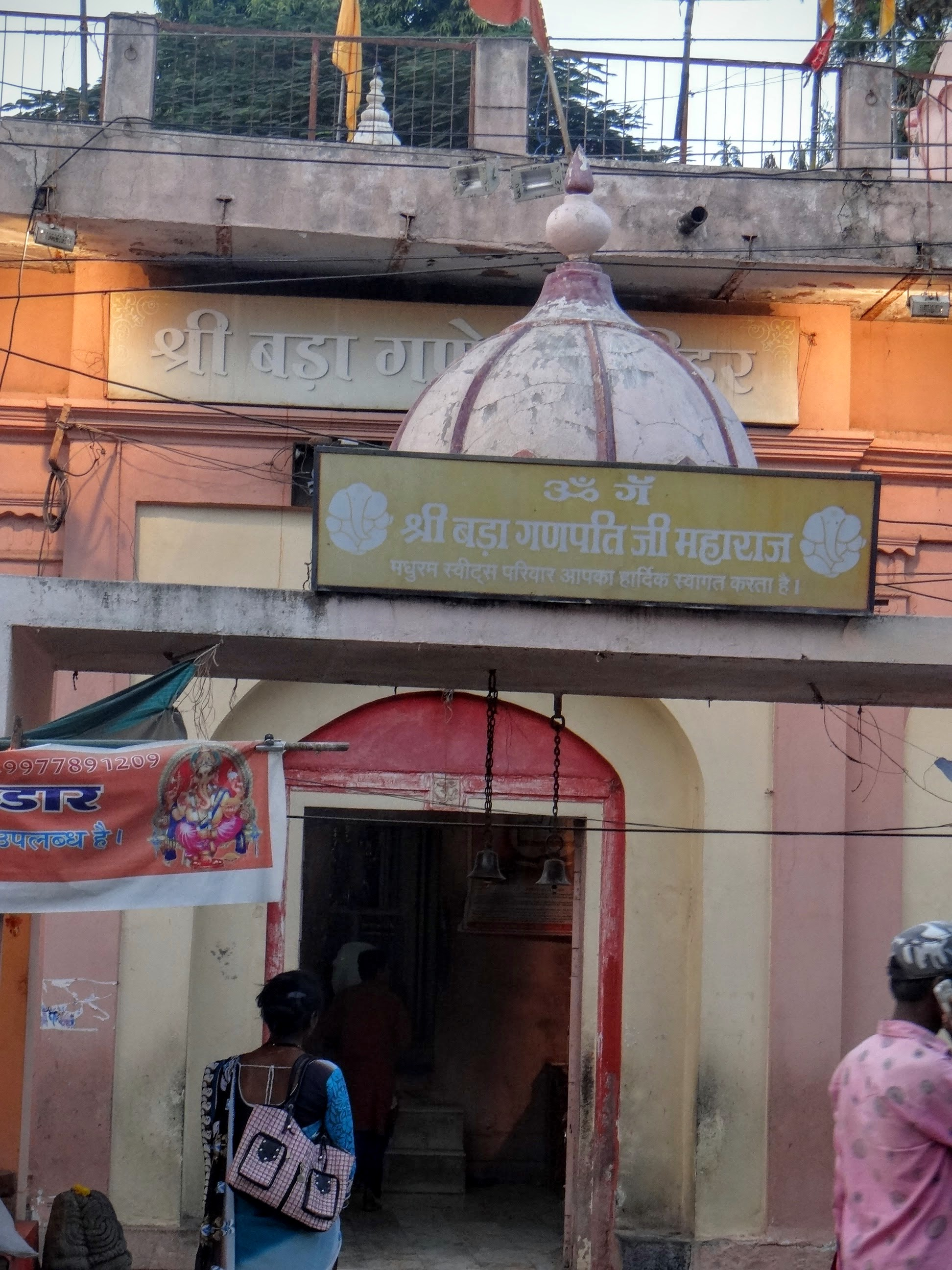 Picture of Bade Ganeshji or Bada Gangapati